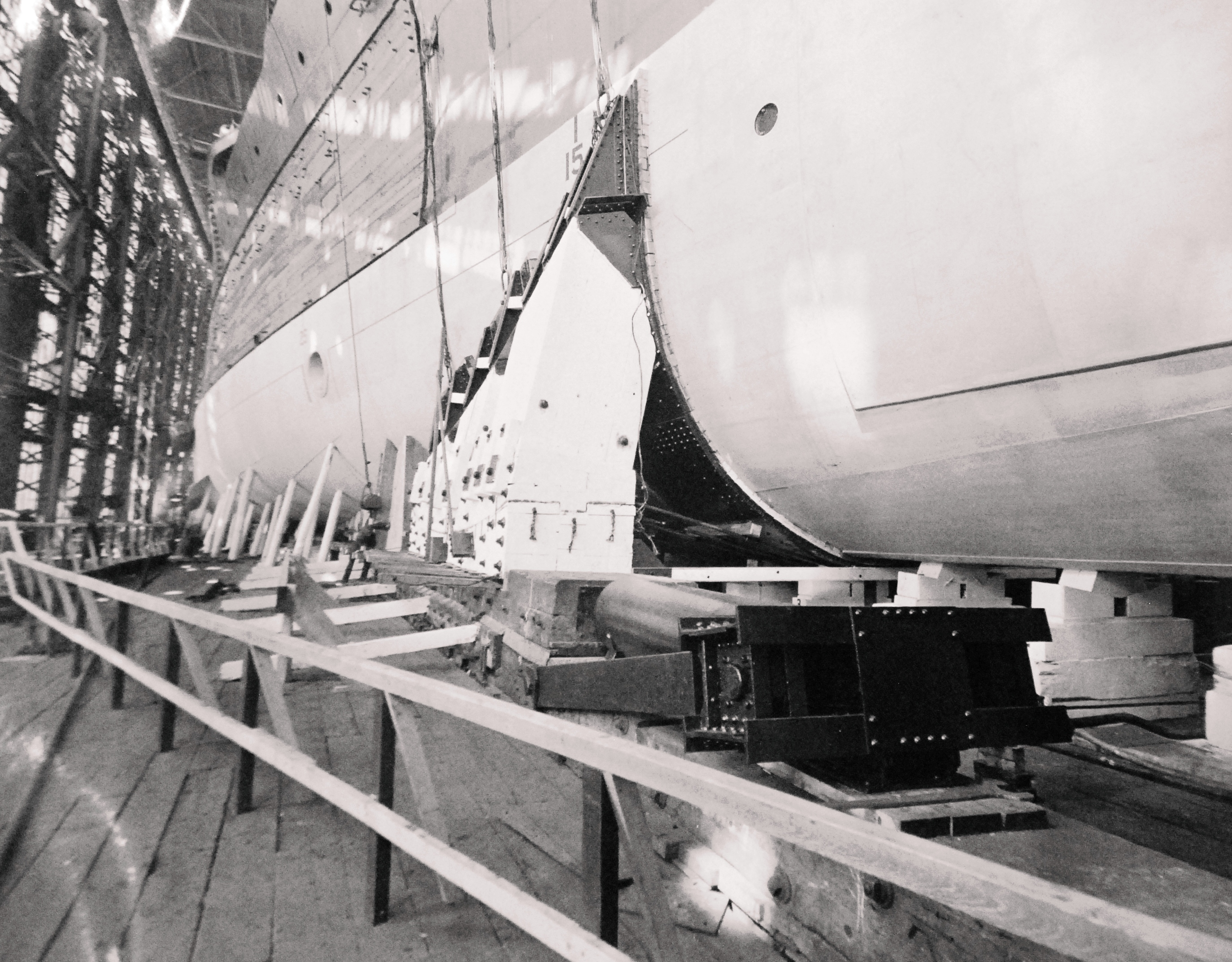 Lot 5365-3: Launching of USS Oklahoma (BB 37) at New York Shipbuilding Company, Camden, New Jersey, March 23, 1914. This photograph shows the supports for the battleship before launching. The sponsor was Ms. Lorena J. Cruce, daughter of Oklahoma Governor Lee Cruce. Oklahoma capsized during the Japanese attack on Pearl Harbor, December 7, 1941, and while being towed to be scrapped on May 17, 1947, she sank during a heavy storm. Photographed through Mylar sleeve. Collection of Secretary of the Navy Josephus Daniels. (9/11/2015).